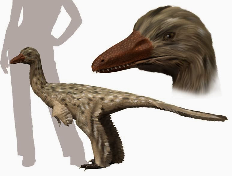 Life reconstruction of Gobivenator mongoliensis